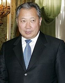 Kurmanbek Bakiyev, the second President of the Kyrgyzstan.